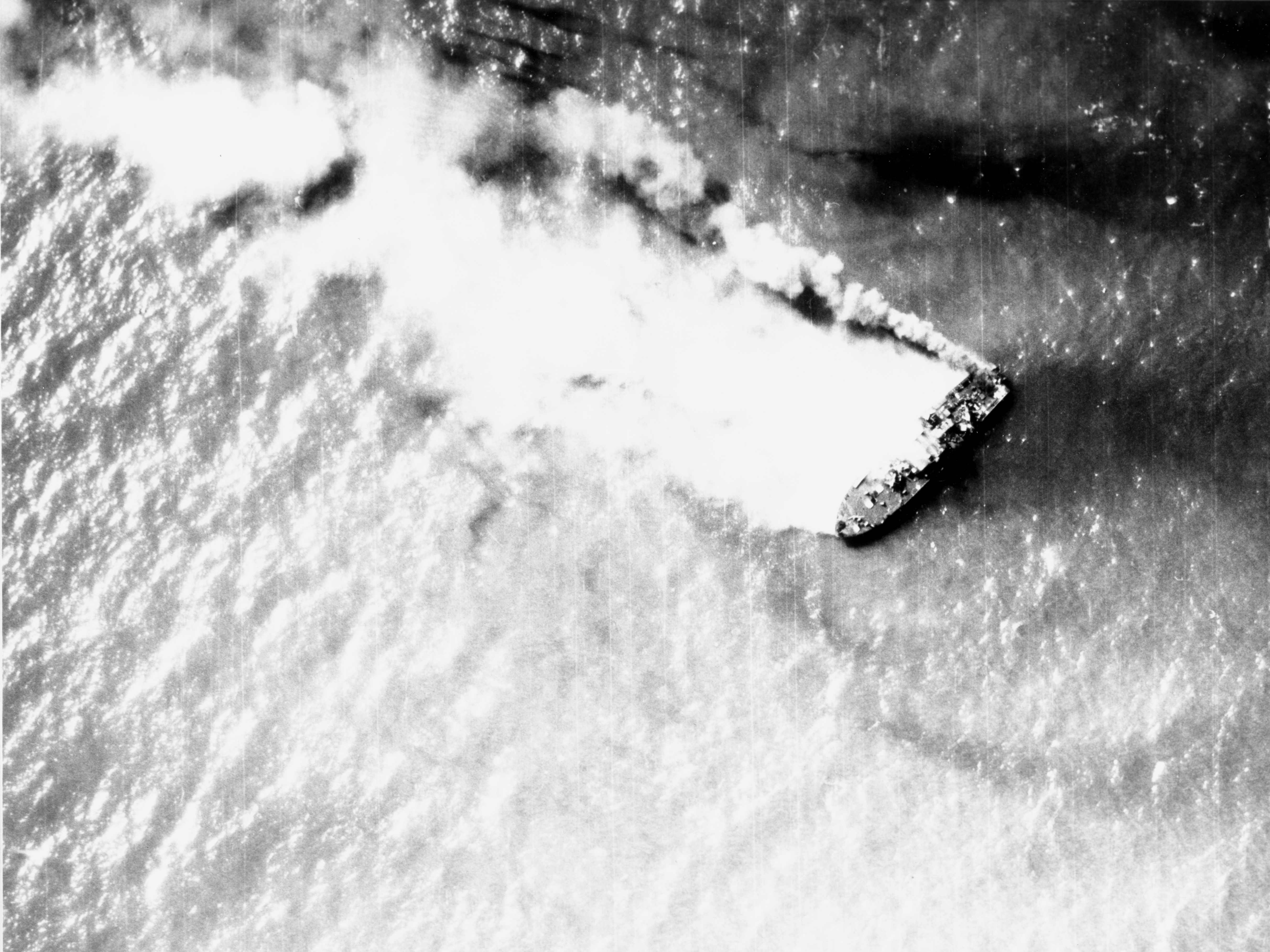 A North Vietnamese Shantou-class gunboat burns near Hon Ne Island, after an attack by aircraft from the U.S. Navy aircraft carrier USS Constellation (CVA-64), off North Vietnam's Lach Chao Estuary, 5 August 1964. The Shantou-class wanown in the United States as the Swatow-class.